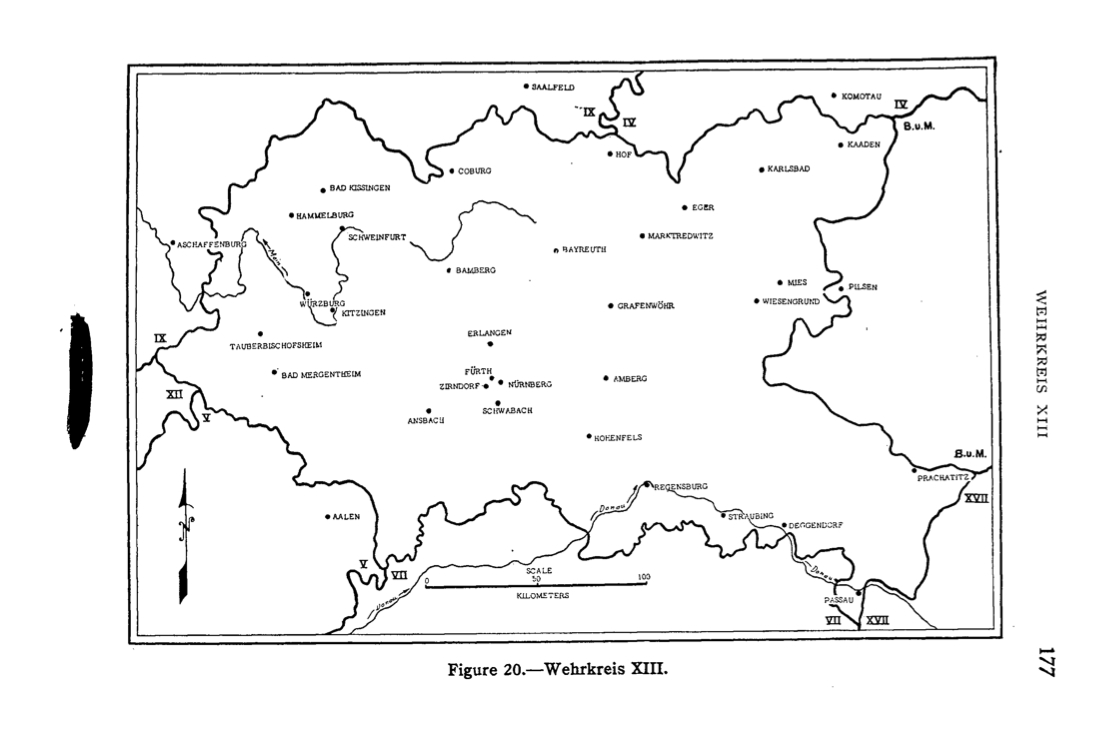 Map of the Wehrkreis, Military District, XIII.